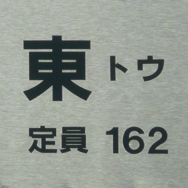 Symbol of the Tokyo General Rolling Stock Center marked on JR East E231-500 series EMU